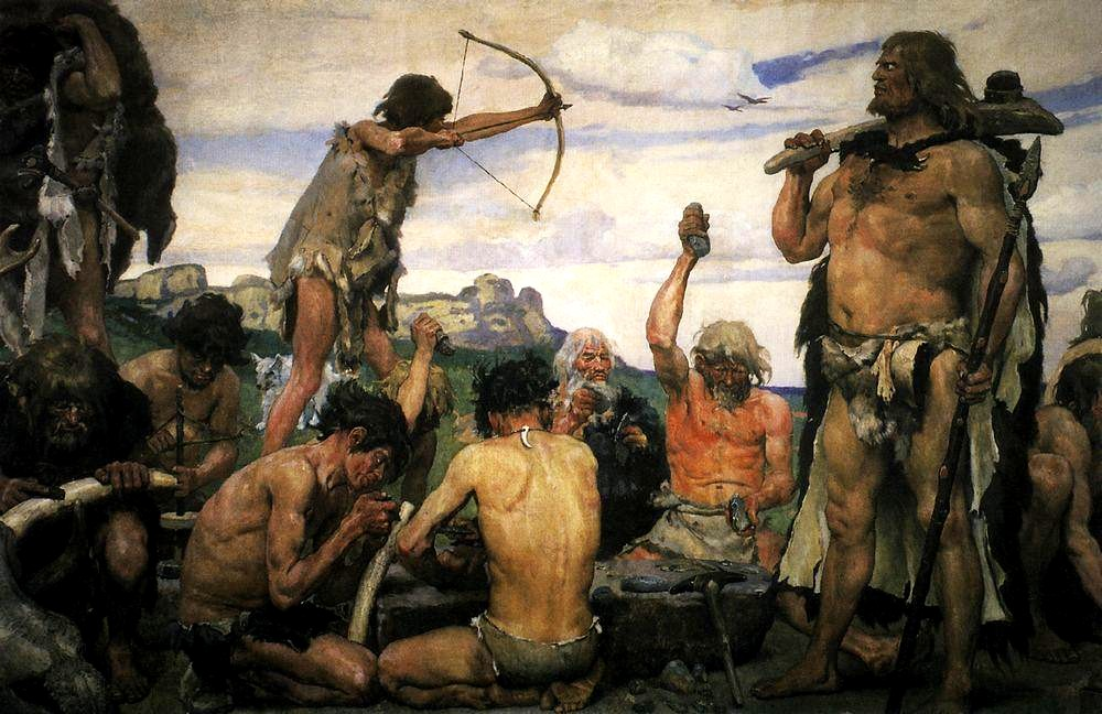 Stone Age. Detail 1